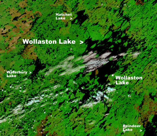 .Portion of NASA map showing Wollaston Lake in Saskatchewan (Captions have been added by Kayoty)